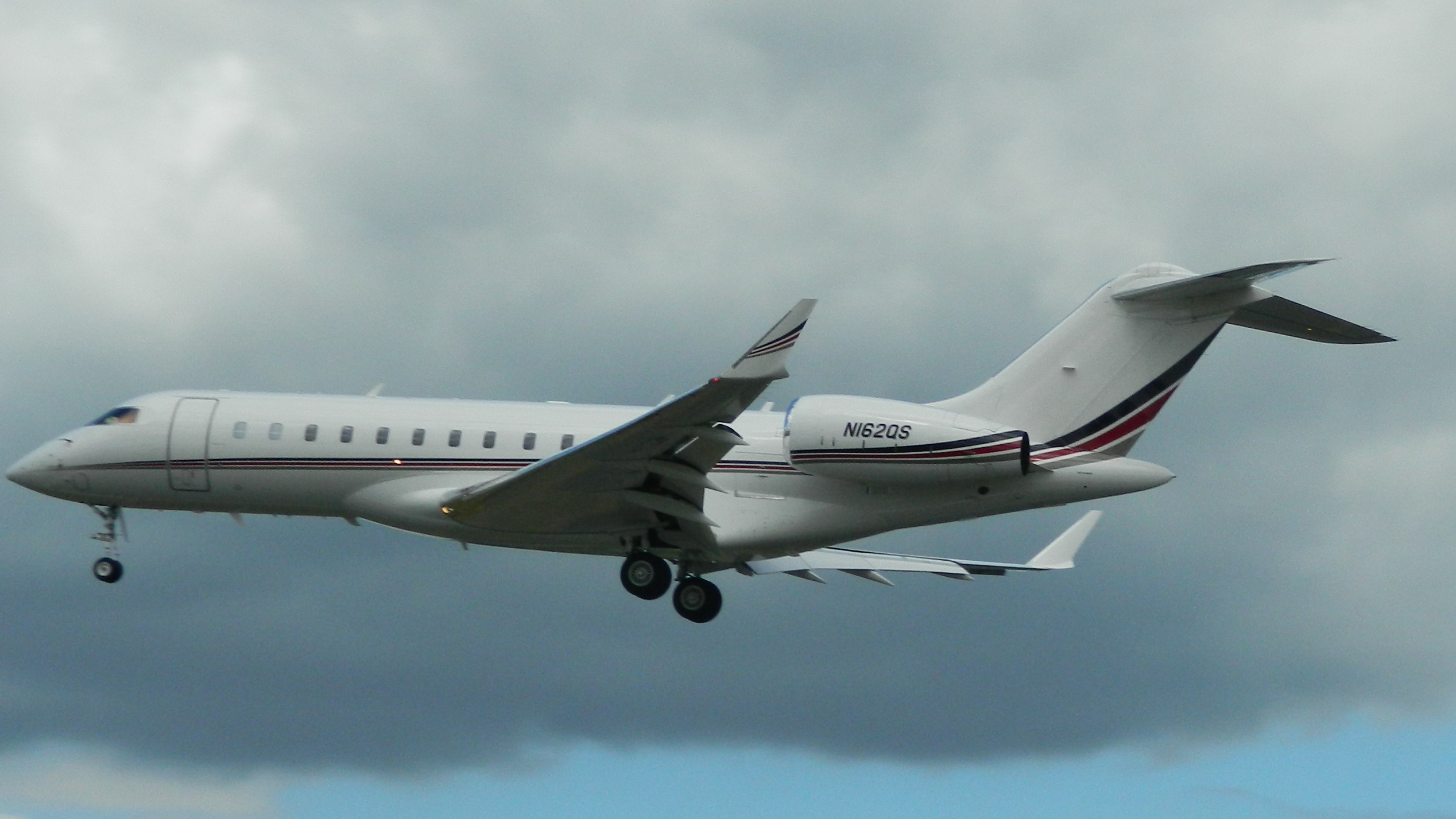 Bombardier Global 6000 registered in the United States as N162QS landing at Farnborough, England during the 2014 Farnborough Air Show